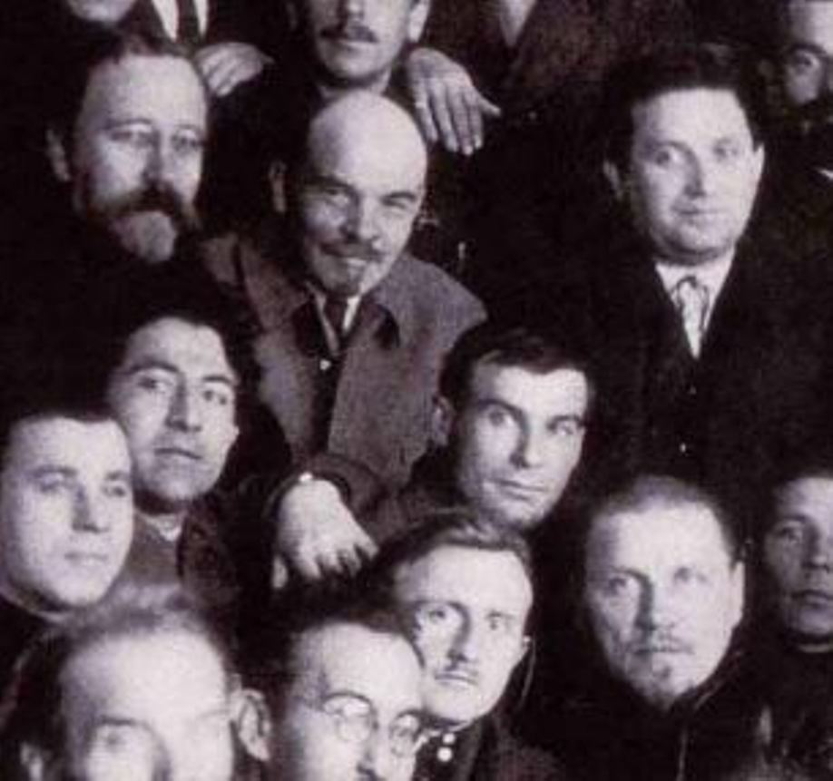 Vladimir Lenin, Grigory Zinoviev, Lev Kamenev and Andrey Vyshinsky during the session of All-Russian Central Executive Committee, October 31, 1922